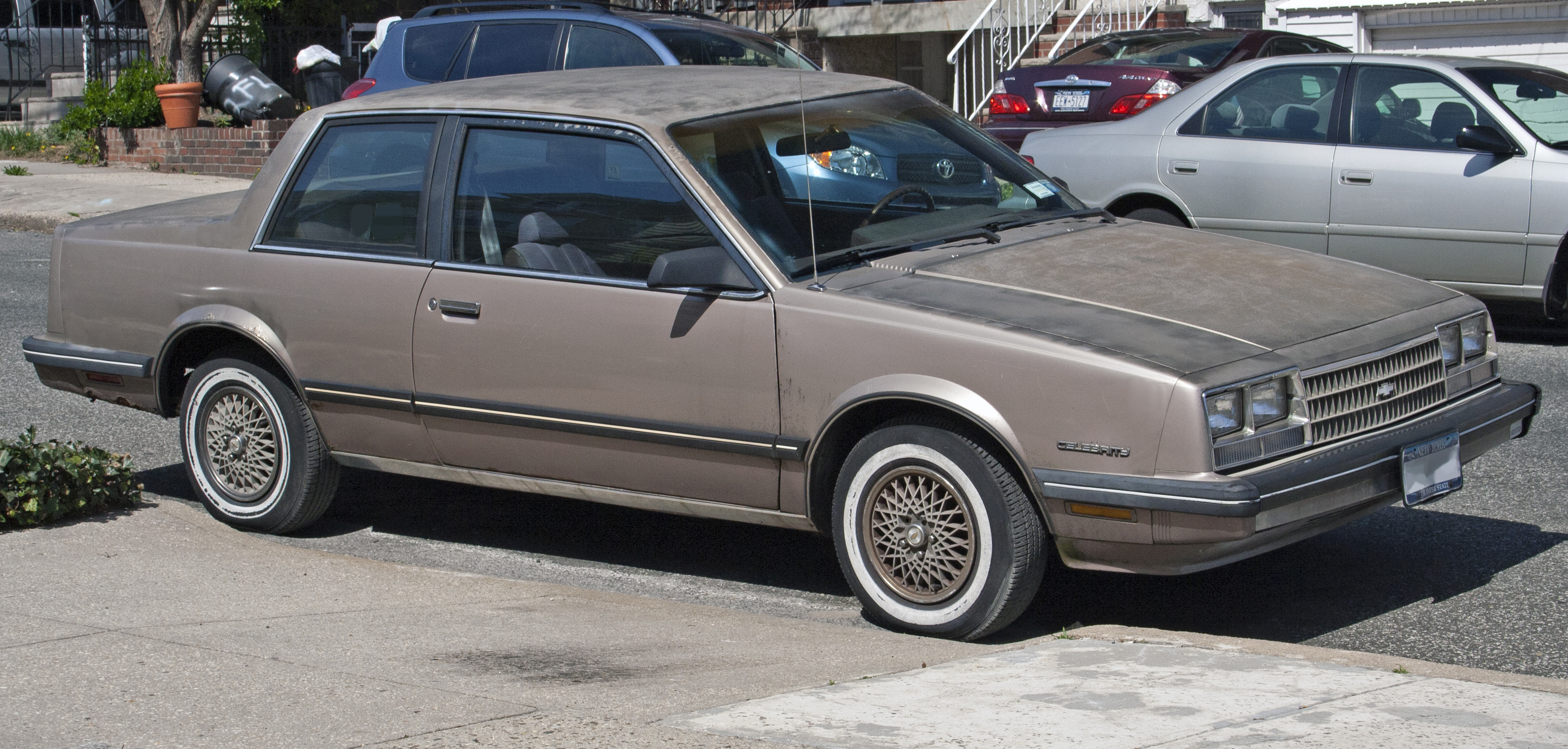 1984 Chevrolet Celebrity Coupé 2.8 V6